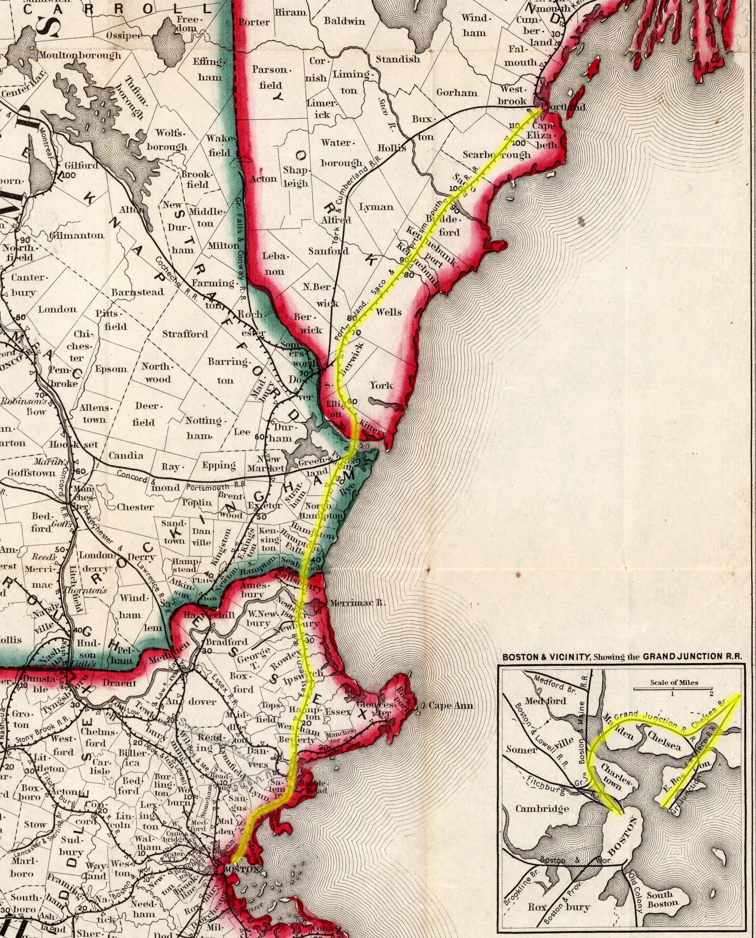 Derivative of the 1849 Railroad Map of New England & Eastern New York (File:1849 Railroad Map of New England & Eastern New York.jpg), cropped with the Eastern Railroad's main line highlighted